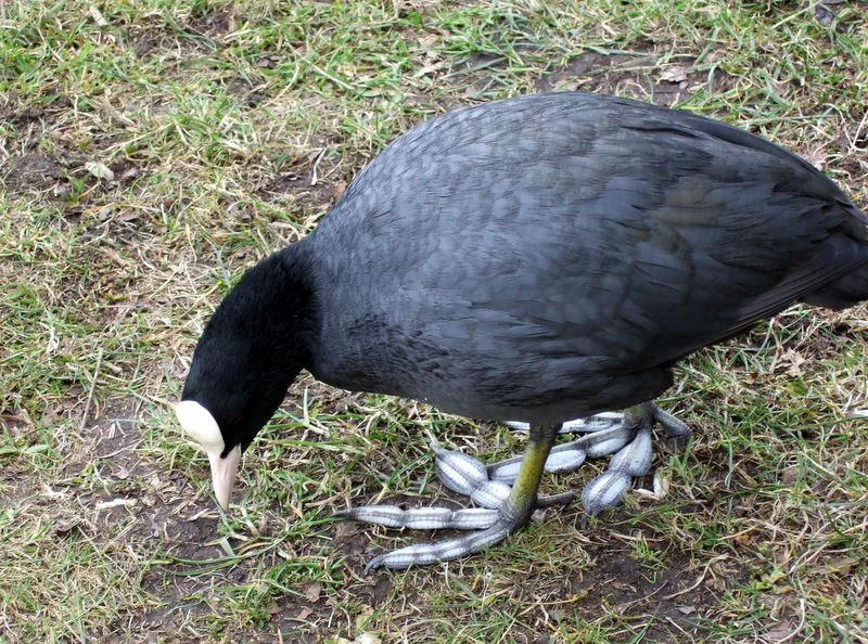 The lobed feet of the coot The coot, Fulica atra, is a distinctive water bird which nevertheless is often confused with the moorhen or even a duck. Unlike those birds it sports a white frontal shield above its white beak (giving rise to the adage 'bald as a coot'), its call is an unmistakeable metallic clink, and it possesses these remarkable feet, not webbed but fissipalmate, meaning they are furnished with lobes of skin which help it to swim, to take off from the water and also to walk across weedy or leafy water surfaces and mud. Grebes and phalaropes share this adaptation. There were dozens of coots on the Paddington Arm of the Grand Union Canal on this mid-March afternoon, paired up and getting ready for the nesting season.